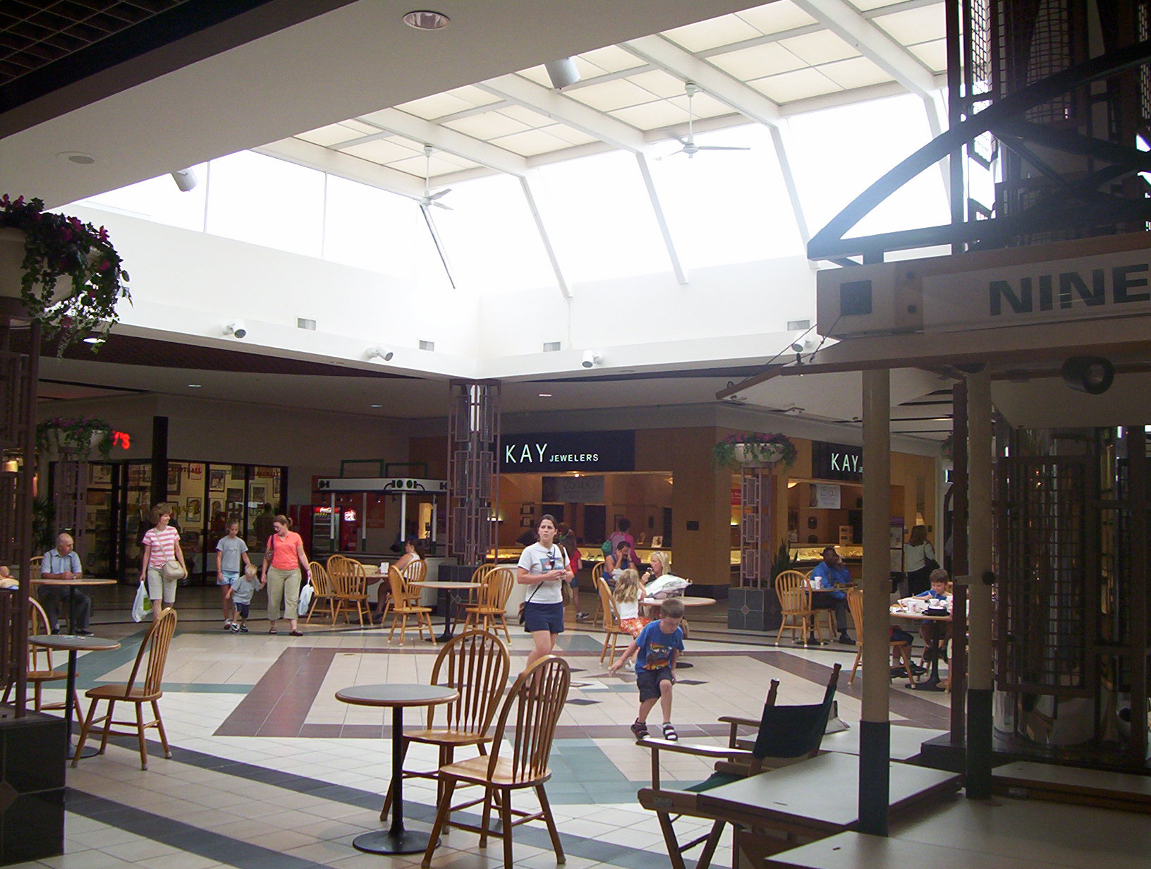 Summary Center court of Green Tree Mall in Clarksville, Indiana Category:Images of Clarksville